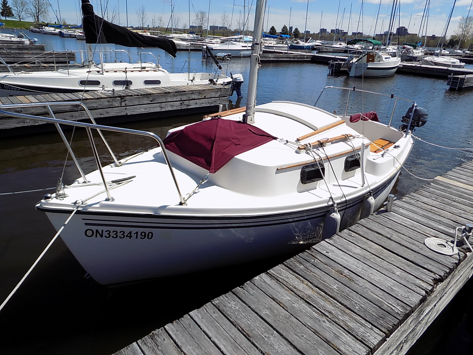 A Sanibel 18 sailboat named Beluga